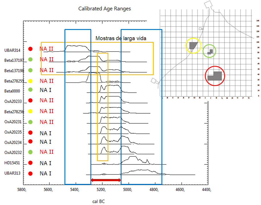 Chronology chart. Dating by C14 and AMS objects from La Draga, Girona (Spain)